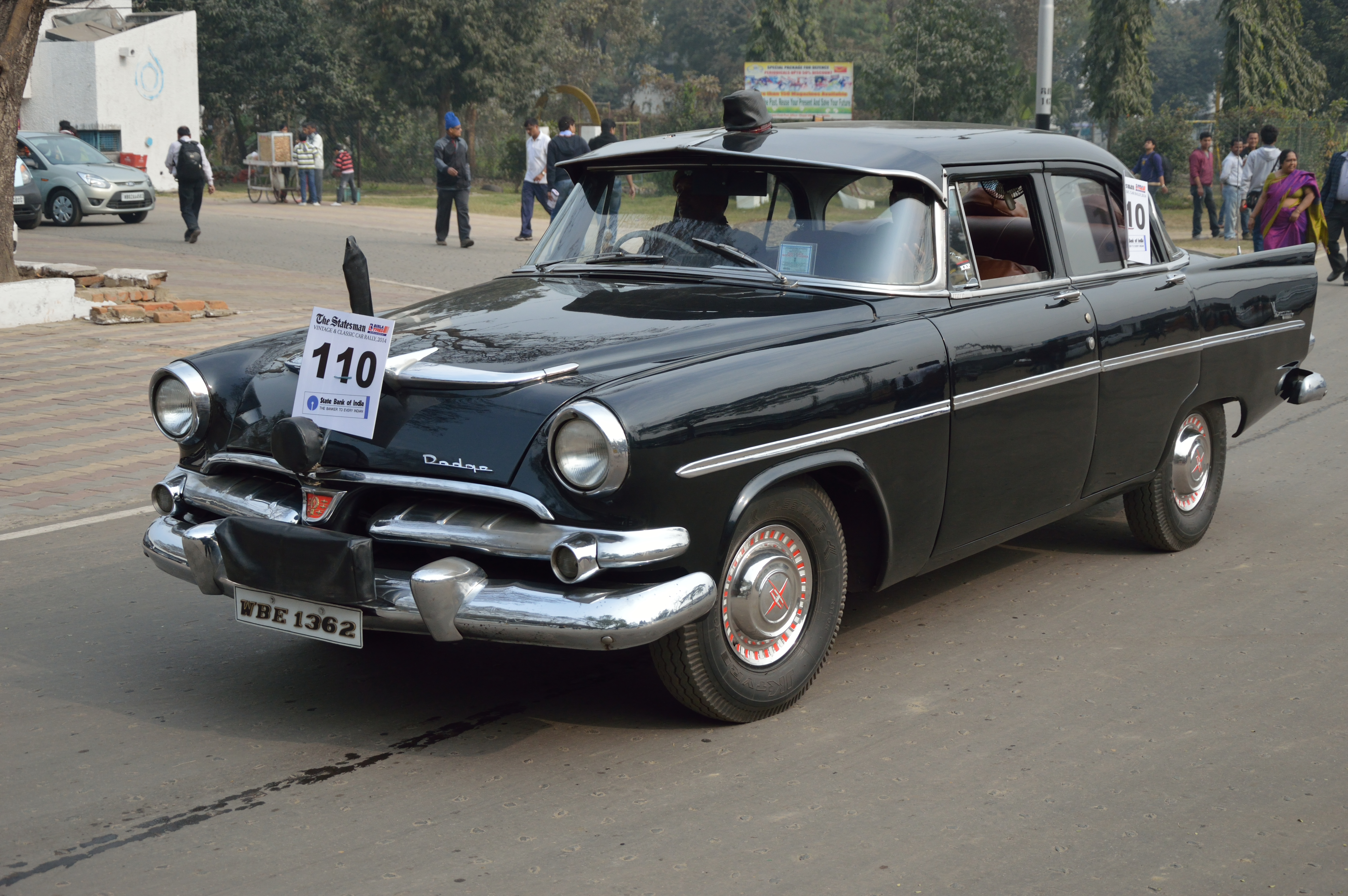 This classic car was exhibited and took part during ‘The Statesman Vintage & Classic Car Rally 2014’at the Eastern Command Sports Stadium of Fort William, Kolkata. The route was Strand road, Esplanade, Central avenue, Bhupen Bose avenue, Shaymbazaar five points crossing, APC Roy road, Moulali, CIT road, National Medical College, Park Circus seven points, Syed Amir Ali Avenue, Gariahat, Rashbehari Avenue, SP Mukherjee road, Hazra crossing, Ashutosh Mukherjee road, Exide crossing, AJC Bose road again Strand road and back to the ECS stadium. The rally was held at the morning on Sunday, 19 January 2013 at the ECS Stadium, where 175 entrants were registered with cars and bikes manufactured from 1906 to 1971. This one day festival usually takes place on the second Sunday of every January (but this time it is observed on third Sunday) in Kolkata since 1968 with full of period costume and cultural period pieces. This classic car is owned by Commissioner of Police, Kolkata and driven by Mihir Kanti Majumder.